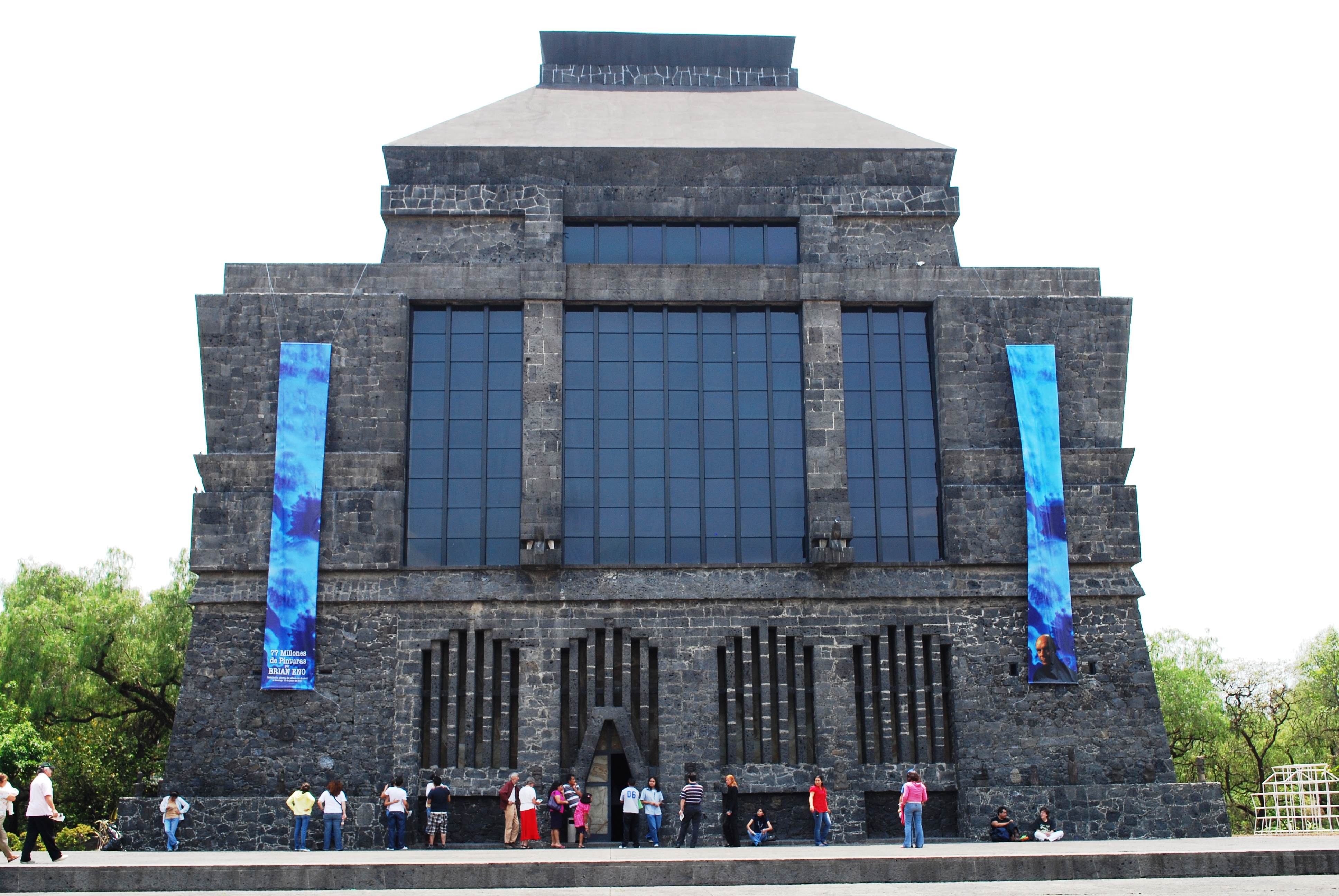 Facade of the Anahuacalli Museum in Mexico City